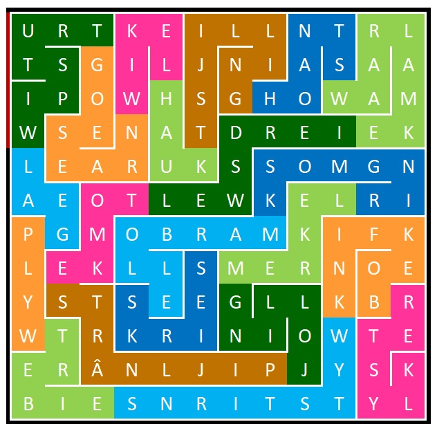 Frisian Snake word search puzzle